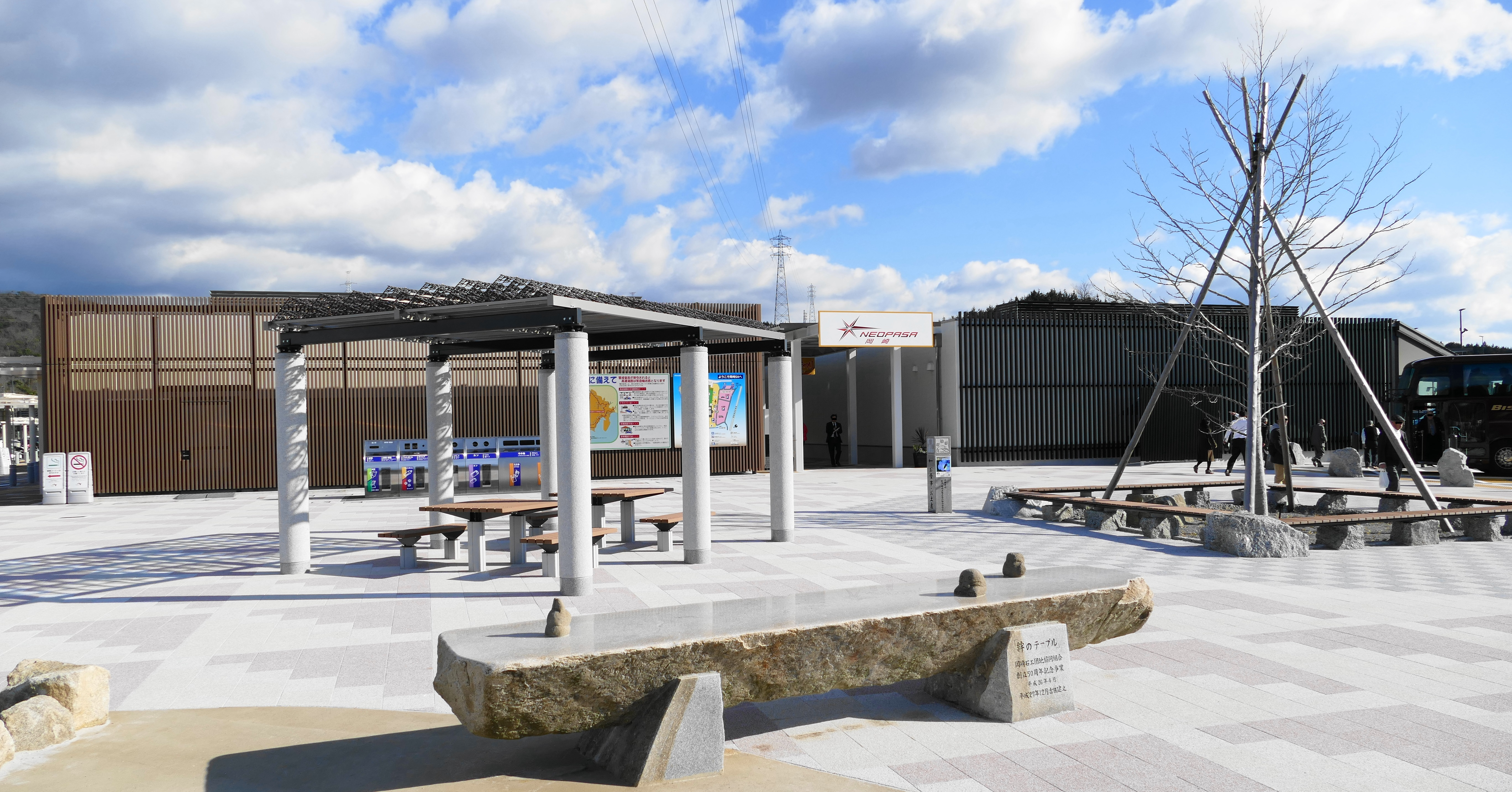 Okazaki Service Area,Aichi prefecture,Japan